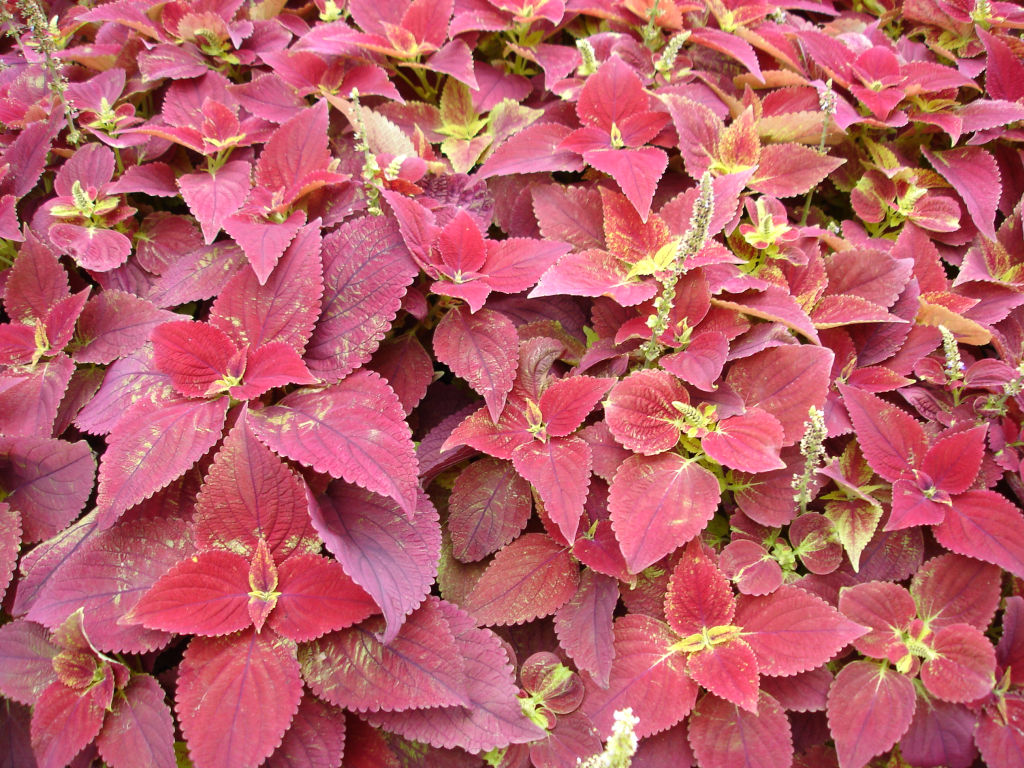 Coleus blumei plants (~syn. Solenostemon scutellarioides)